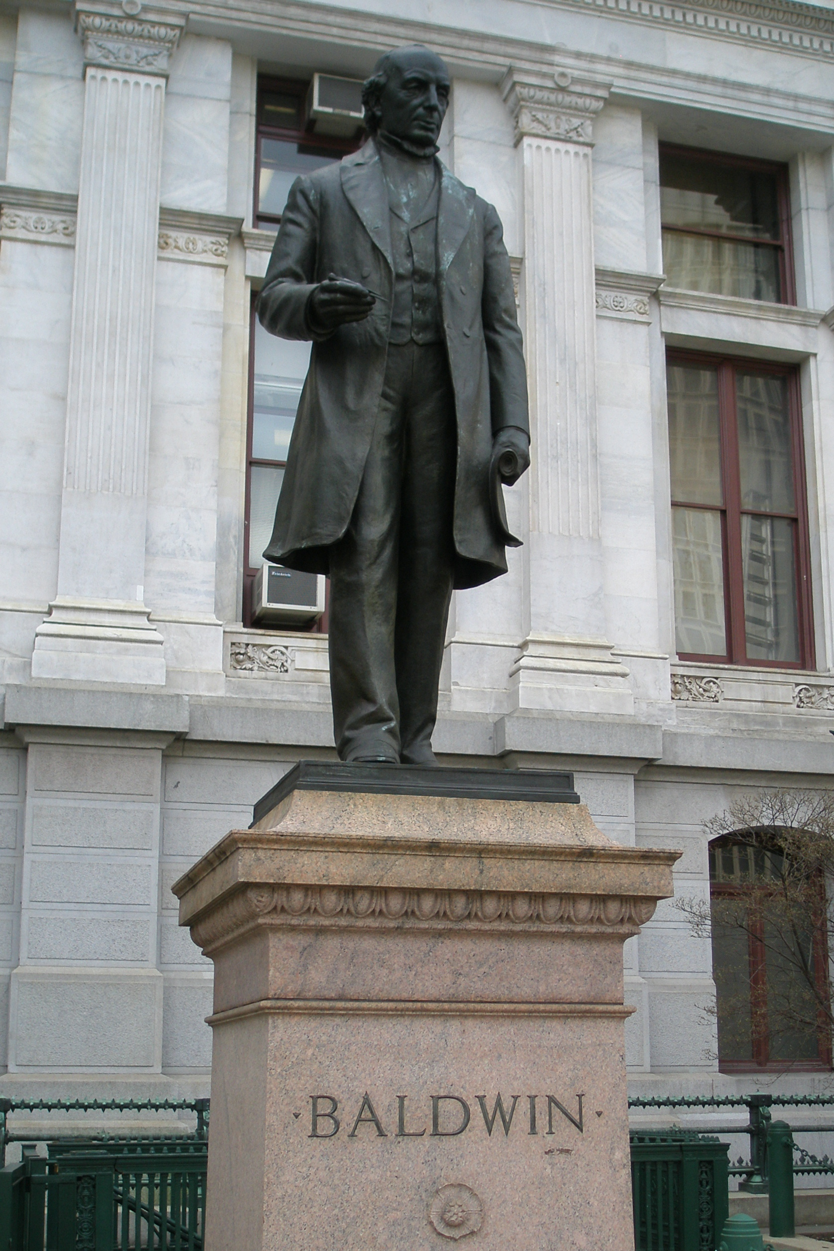 Statue of Matthias W. Baldwin by Herbert Adams in front of Philadelphia City Hall